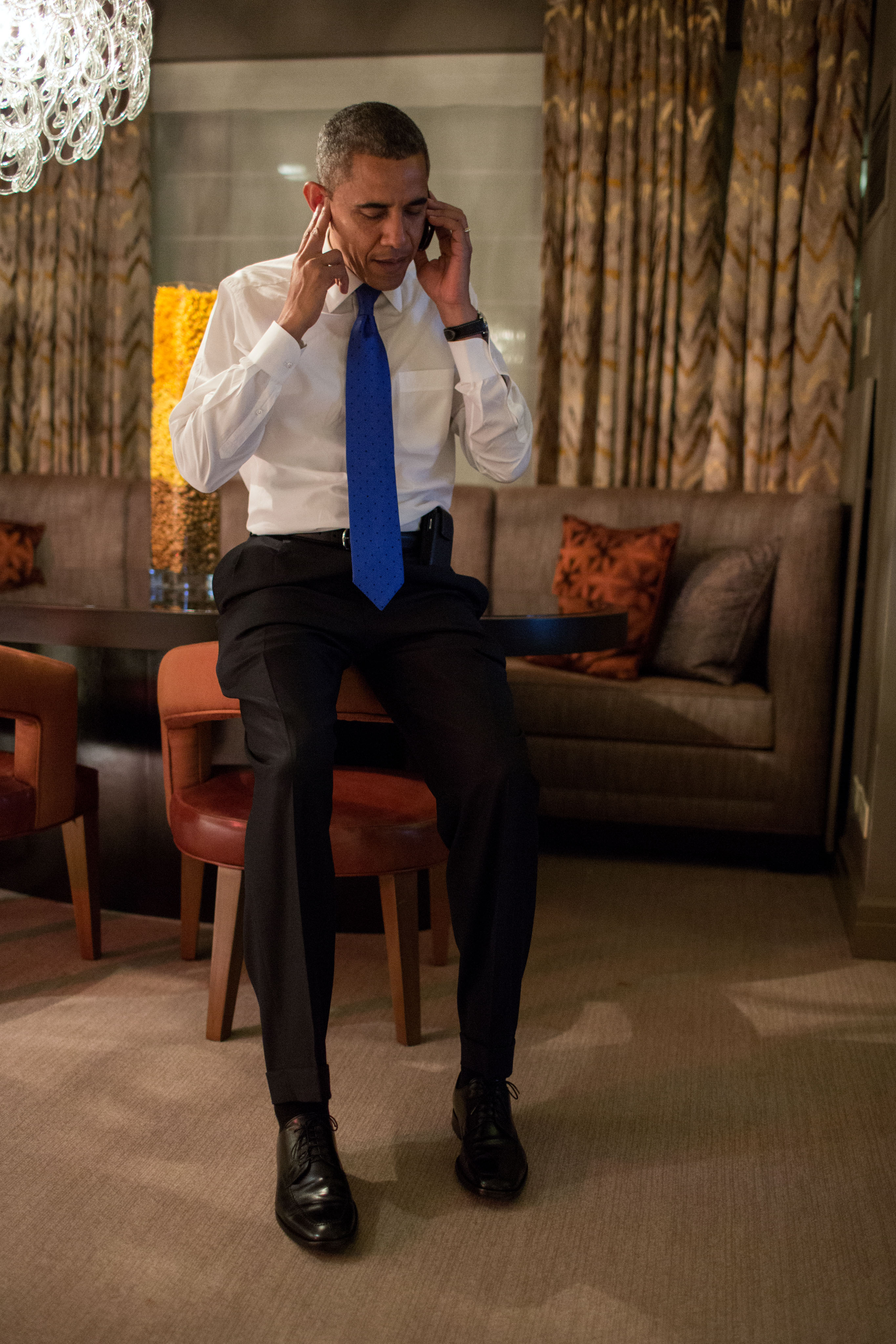 United States President Barack Obama talks on the phone with former Massachusetts Governor Mitt Romney in the Presidential Suite at the Fairmont Chicago Millennium Park in Chicago, Illinois on 6 November 2012. Romney called to concede the 2012 US Presidential Election and to congratulate President Obama on his re-election.